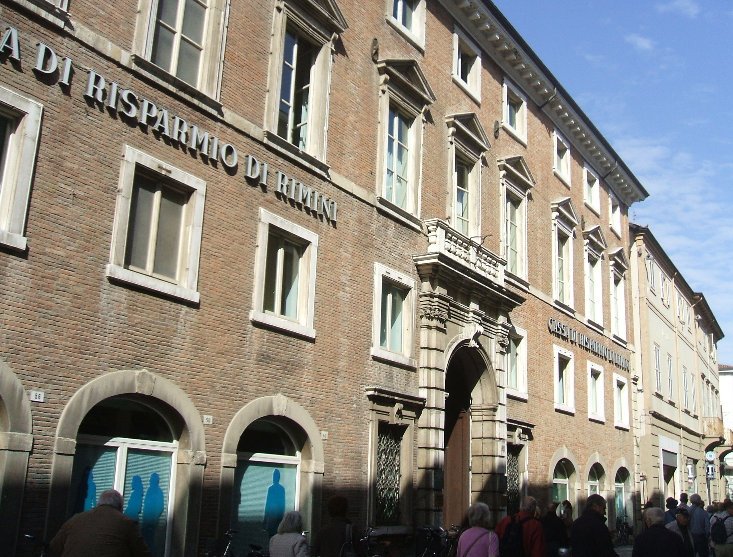 Palazzo Buonadrata in Rimini, Italy